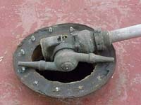 Nozzle of a Butterworth machine